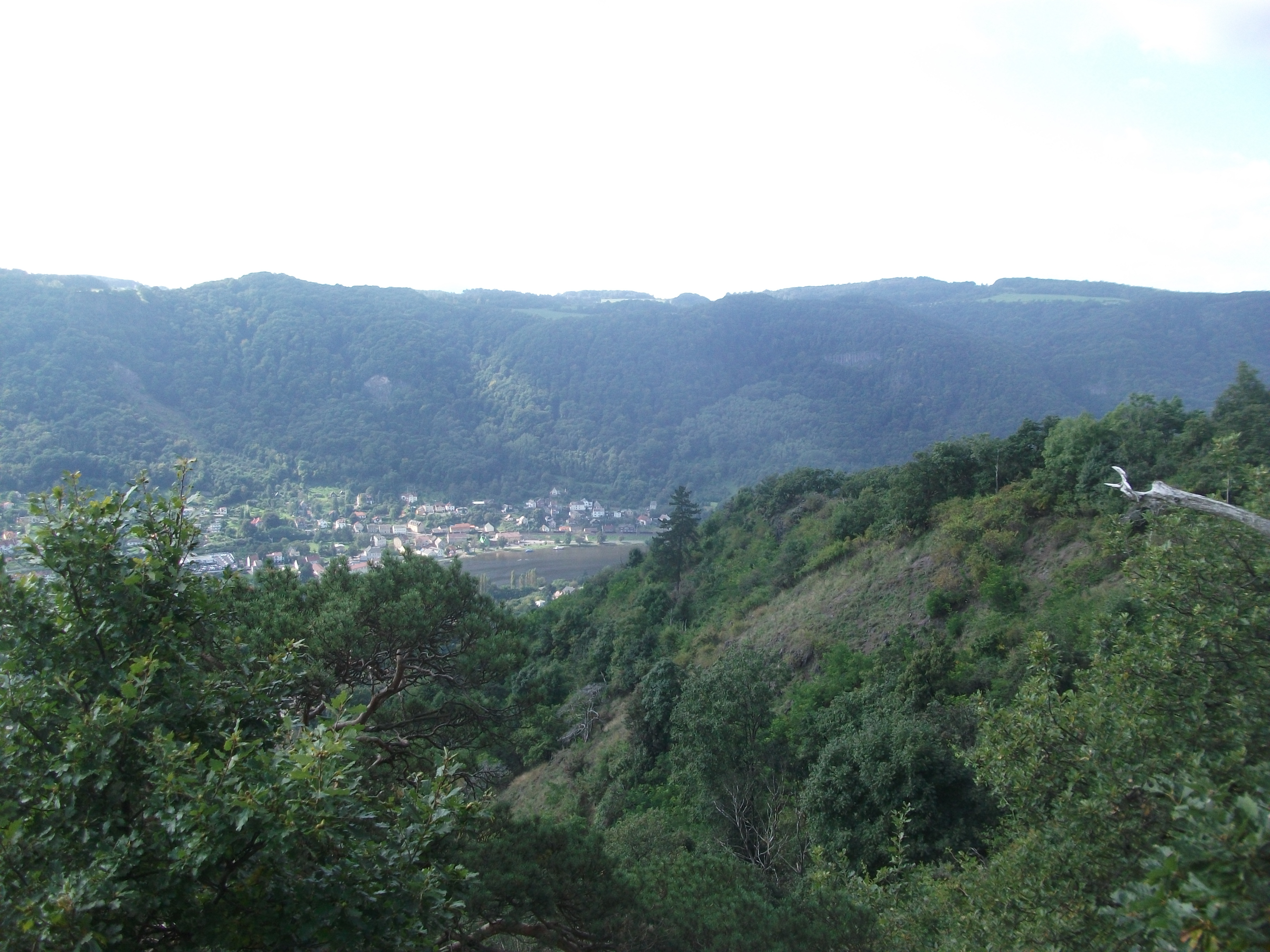 Nature reserve Sluneční stráň near Ústí nad Labem, Czech Republic